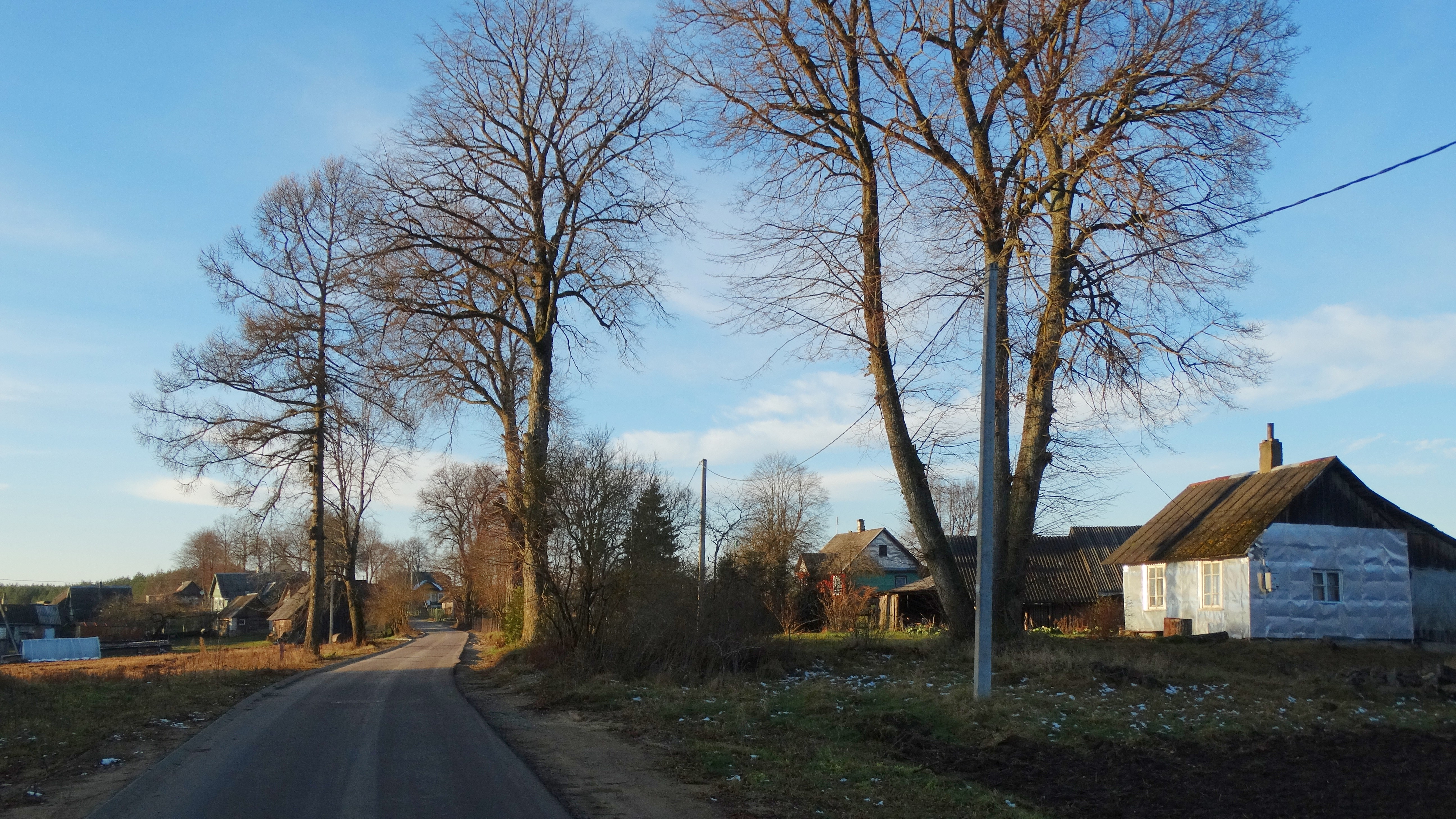 Gojus, Trakai district, Lithuania